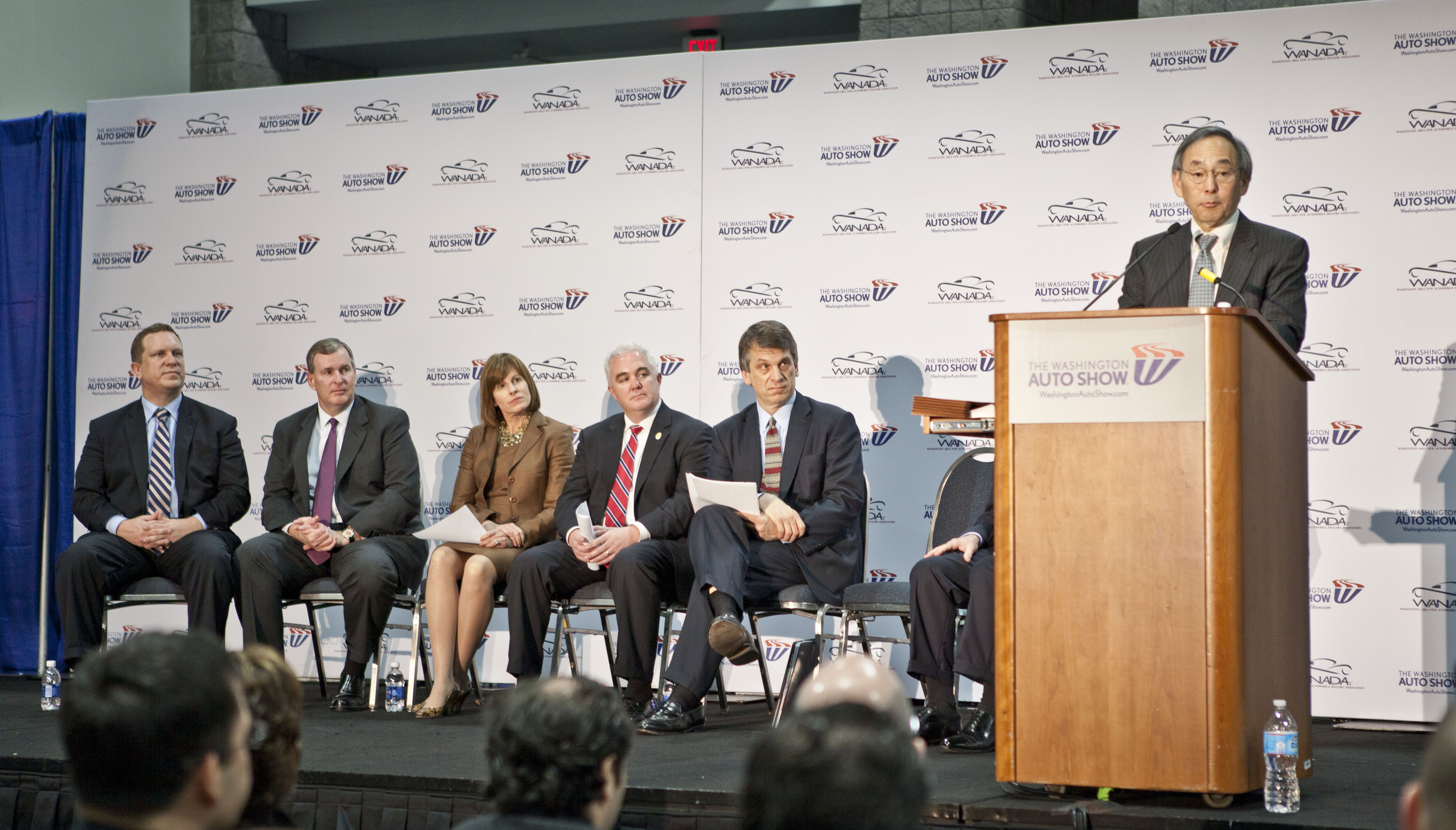 Energy Secretary Steven Chu announces the new Workplace Charging Challenge, a collaborative effort to increase the number of U.S. employers offering workplace charging tenfold in the next five years.